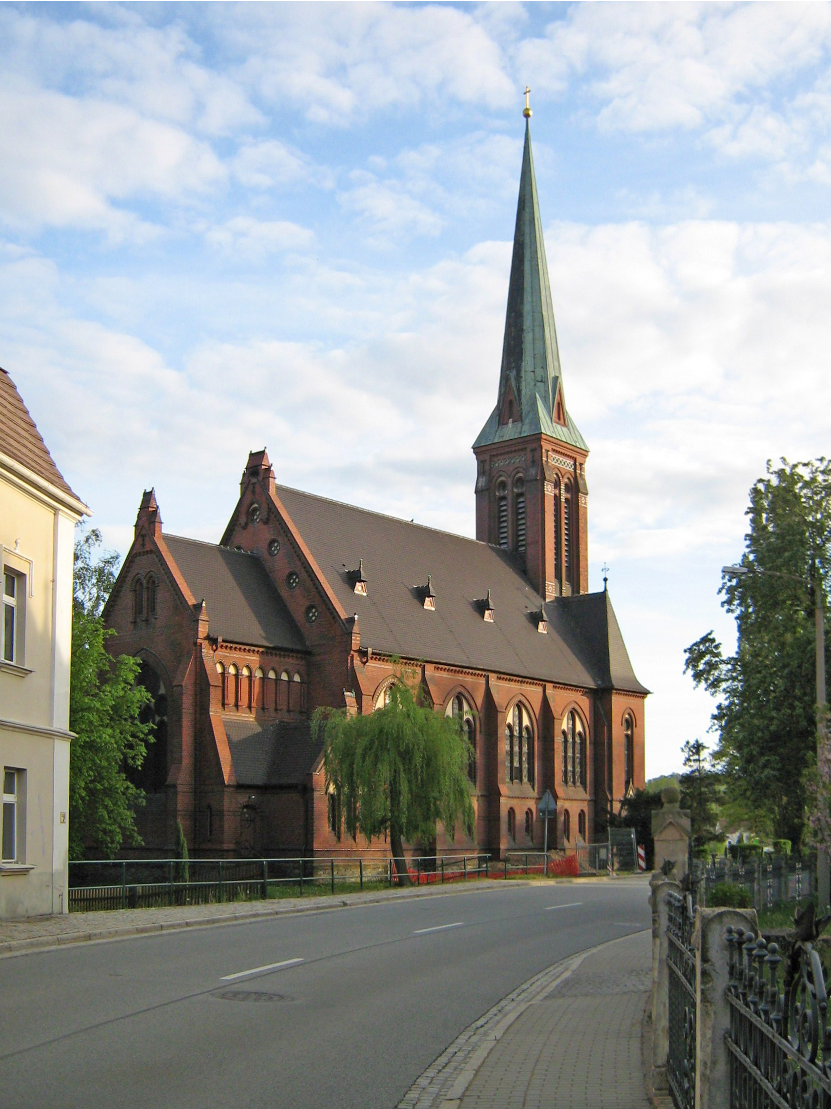 The church in Ostritz.